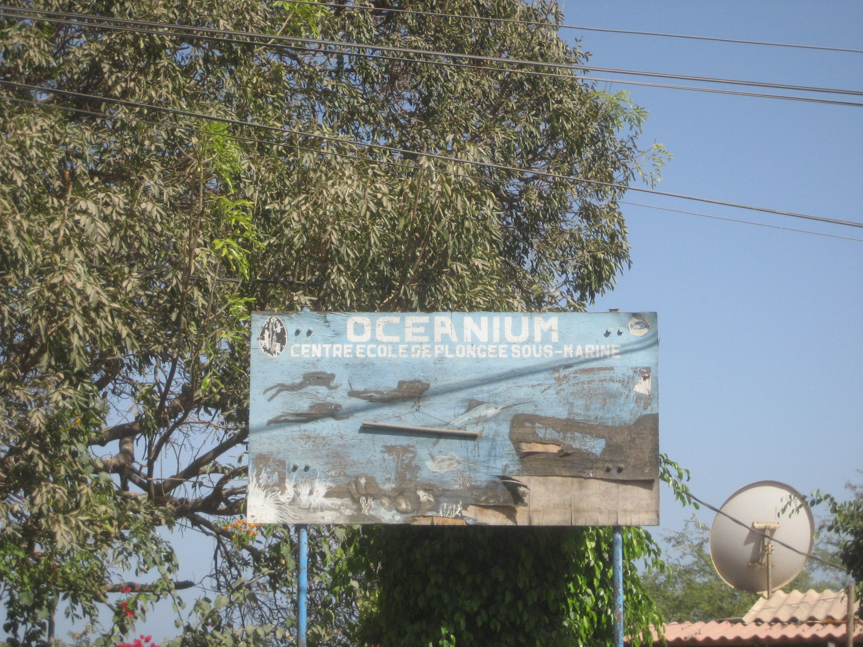 Oceanium in Dakar (Senegal). Centre école plongée sous-marine. Rte de la Corniche Estate